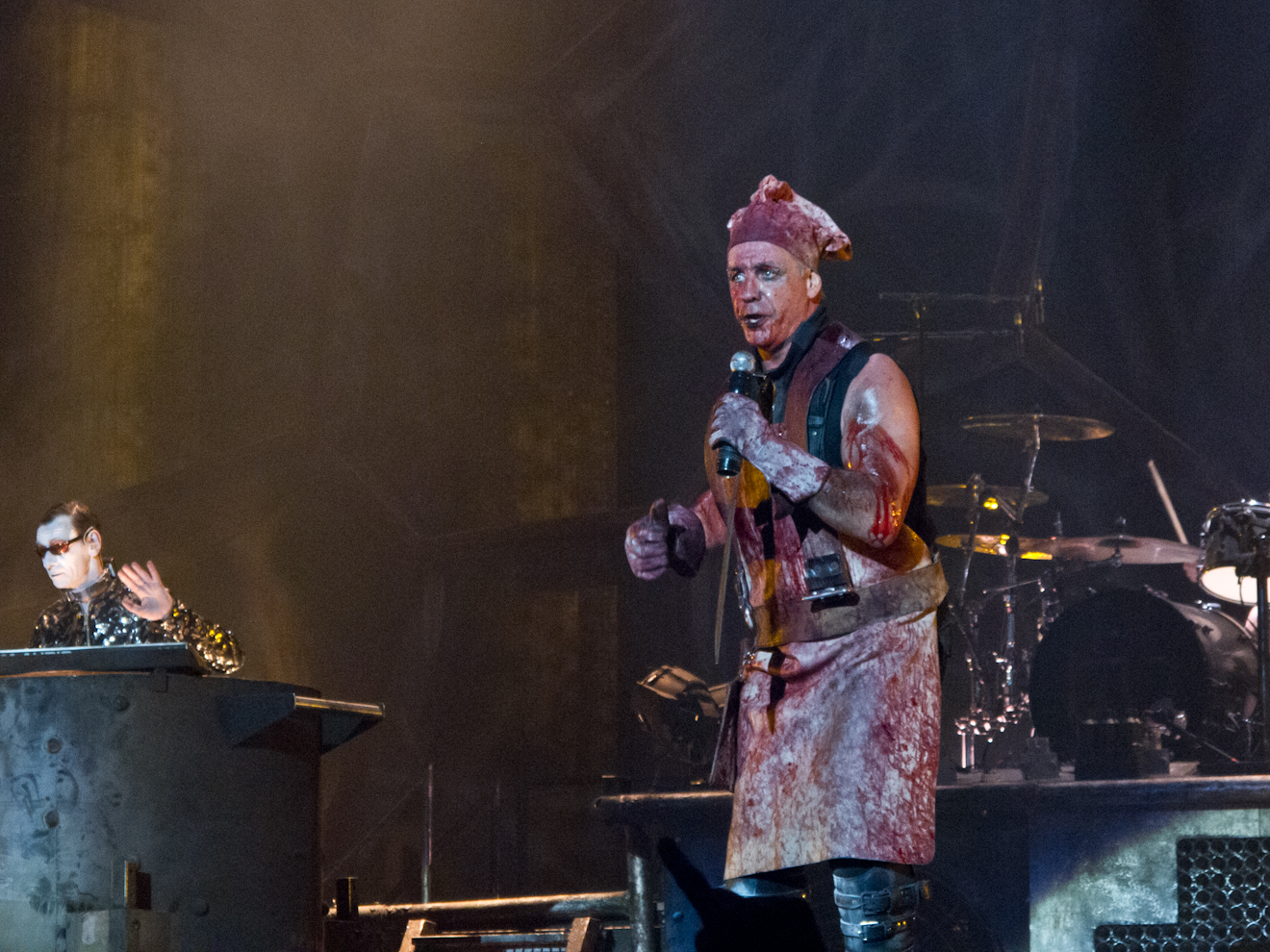 Rammstein in concert in Madrid, Spain.